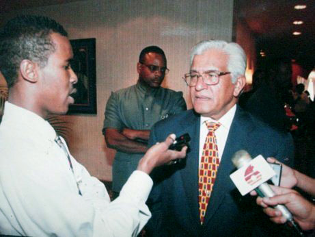 Sampson Nanton interviews former Prime Minister of the Republic of Trinidad and Tobago, Basdeo Panday in 1997